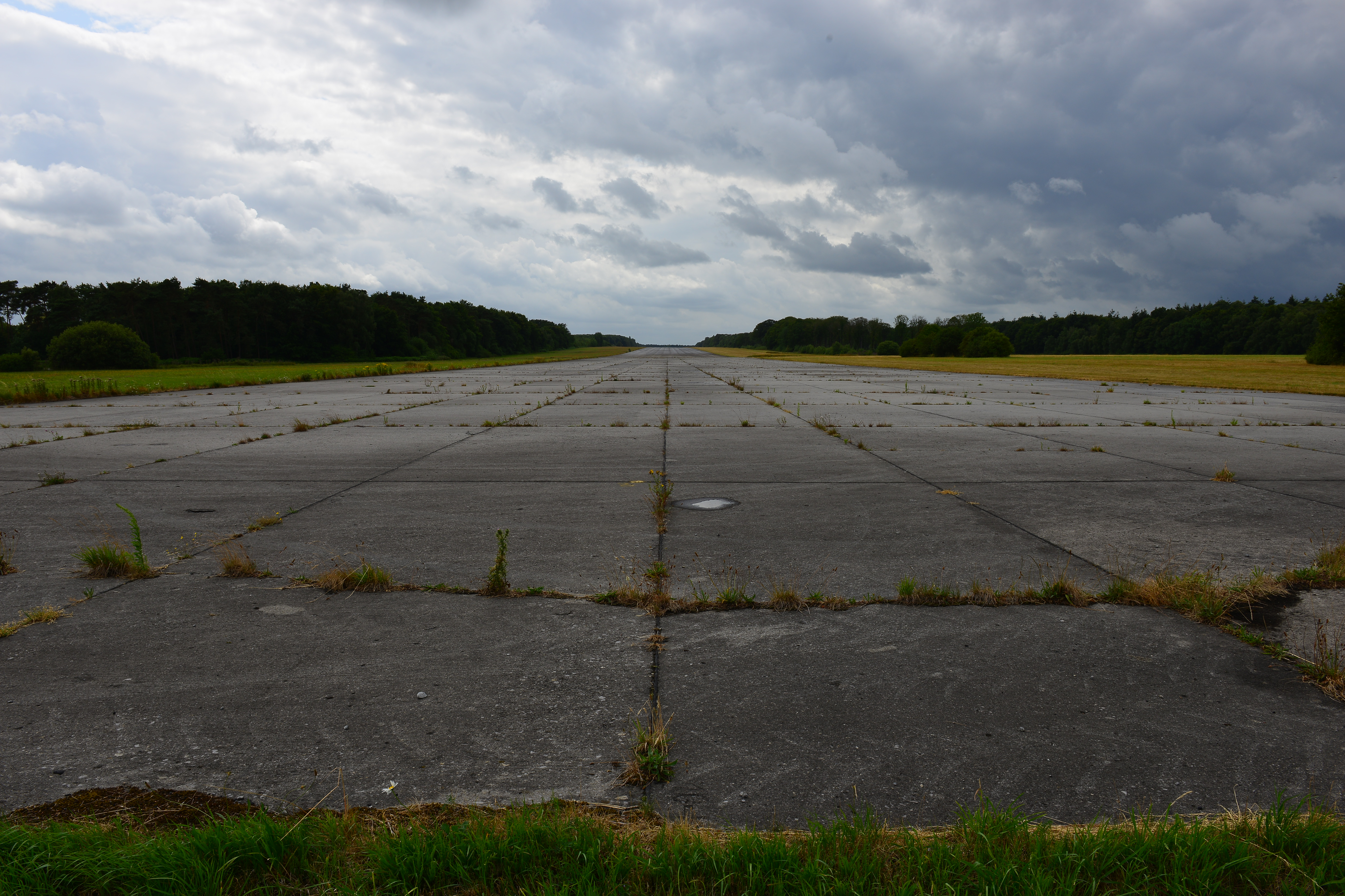 Ursel Air Base, Belgium. Runway threshold 25.